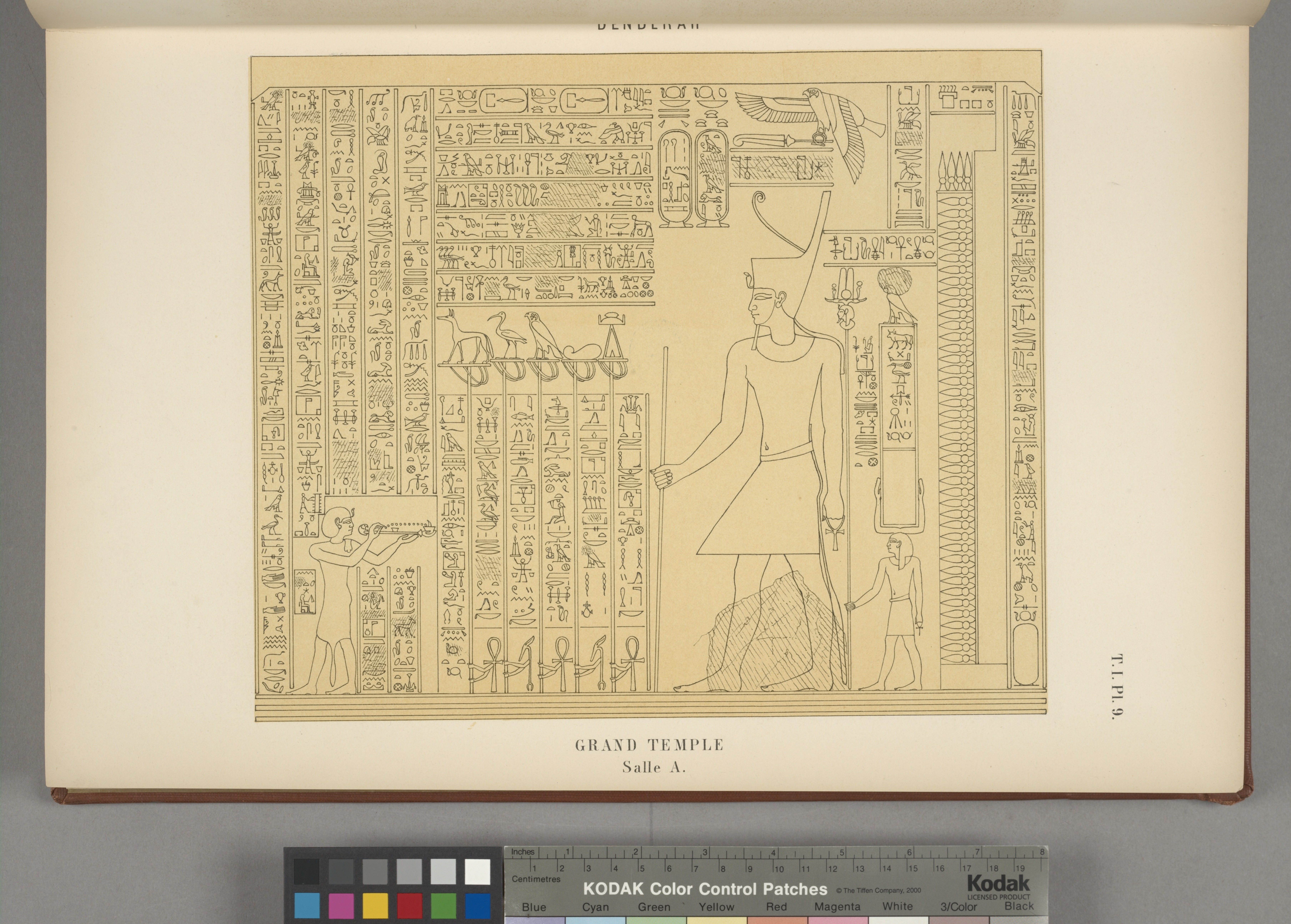 Denderah. Grand temple. Salle A.